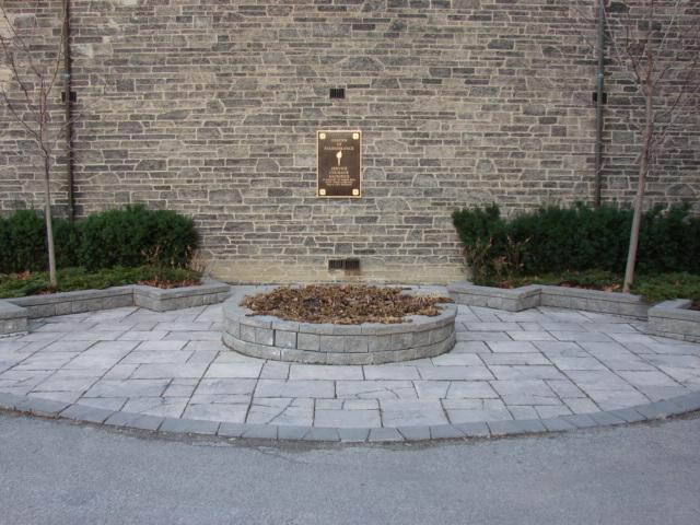 Memorial – Memorial Garden University of Toronto Ontario. Plaque inscription - "This garden is in memory of those who gave their lives for peace and freedom. It was originally dedicated to the memory of Captain John Kenneth Macalister (Universit y College BA 1936) and Captain Frank Herbert Dedrick Pickersgill (University College MA 1938)". Garden memorial inspired by Douglas LePan, author verse "Macalister", Dying in Darkness.